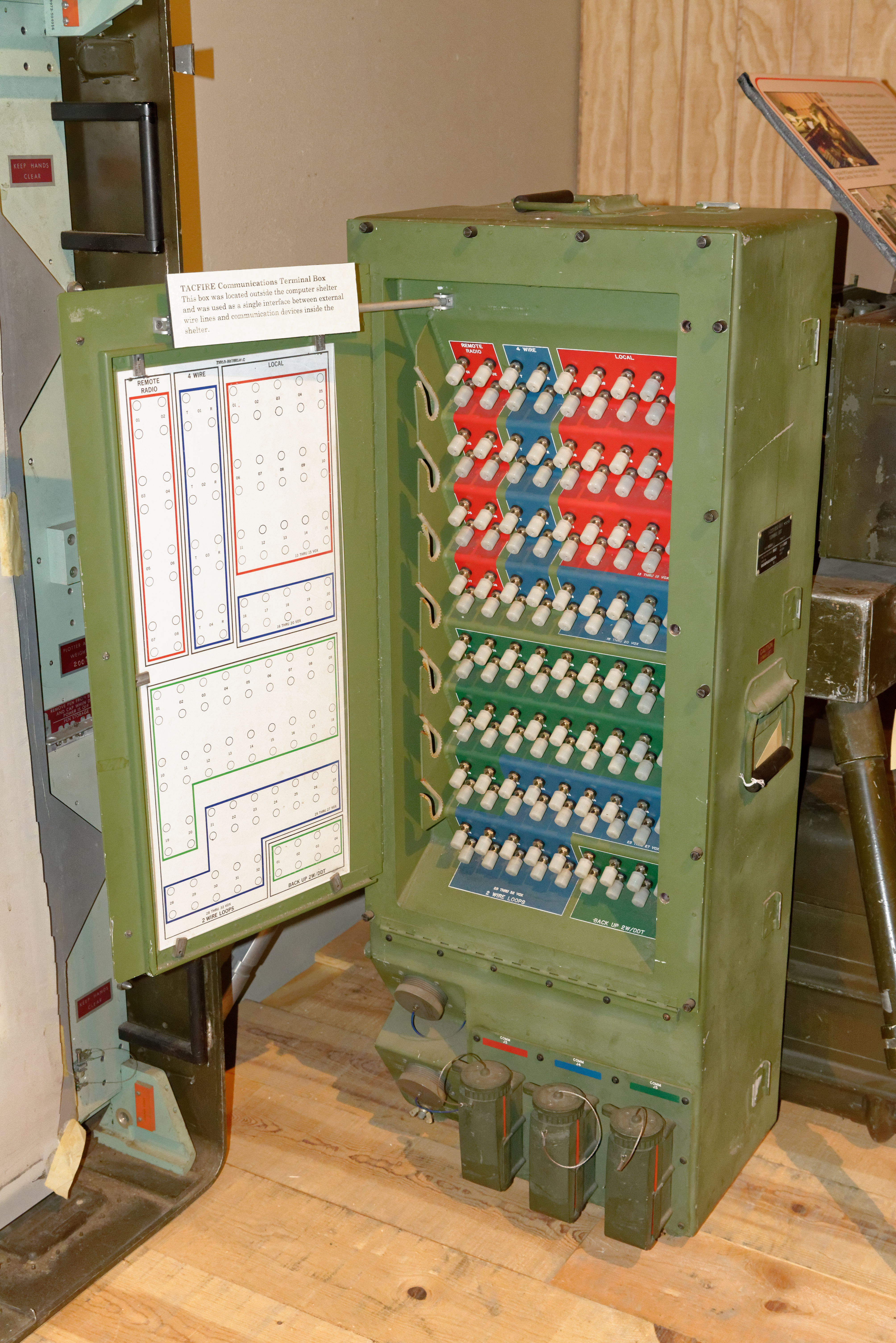 TACFIRE Communications Terminal Box at the Field Artillery Museum, Fort Sill, Oklahoma, U.S.